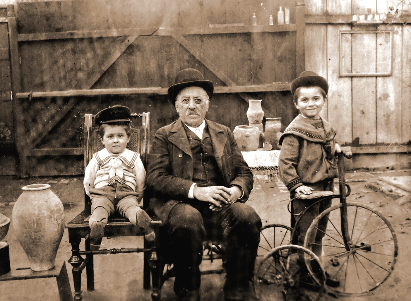 Senta/Zenta museum exhibit: photo of archaeologist and ethnologist Teodor-Toša Branovački (1834–1919)